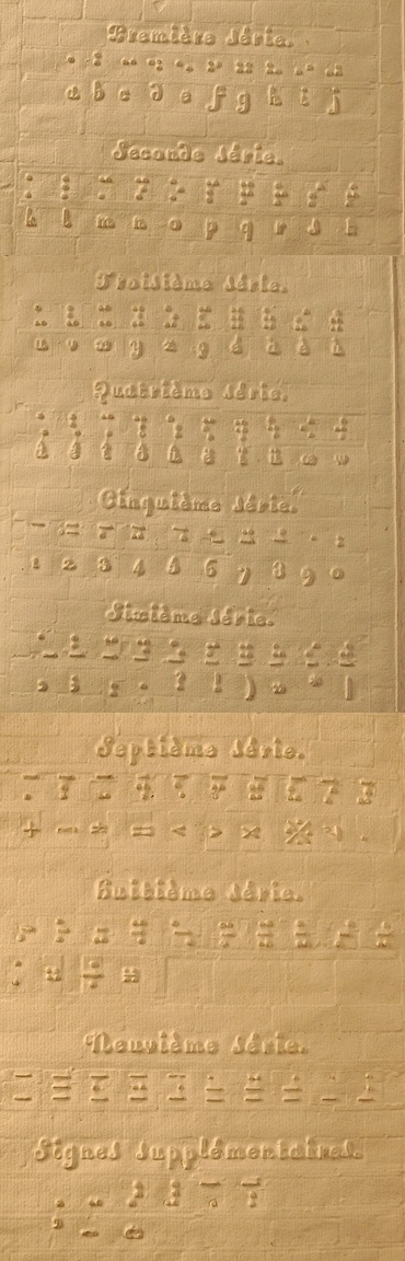 The braille script as first published in 1829